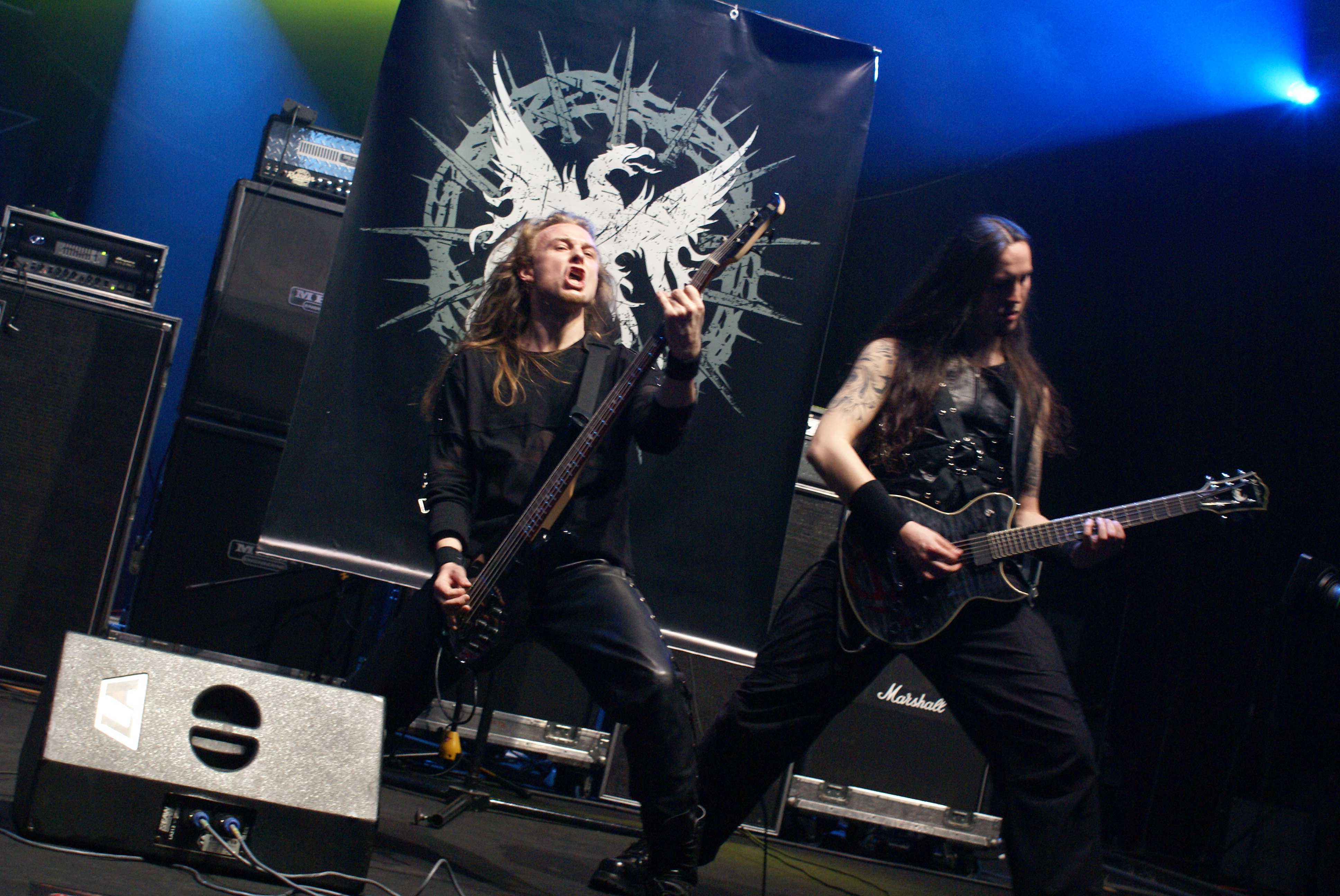 Bacchus and Chris from Darzamat during Metalmania 2007 festival.